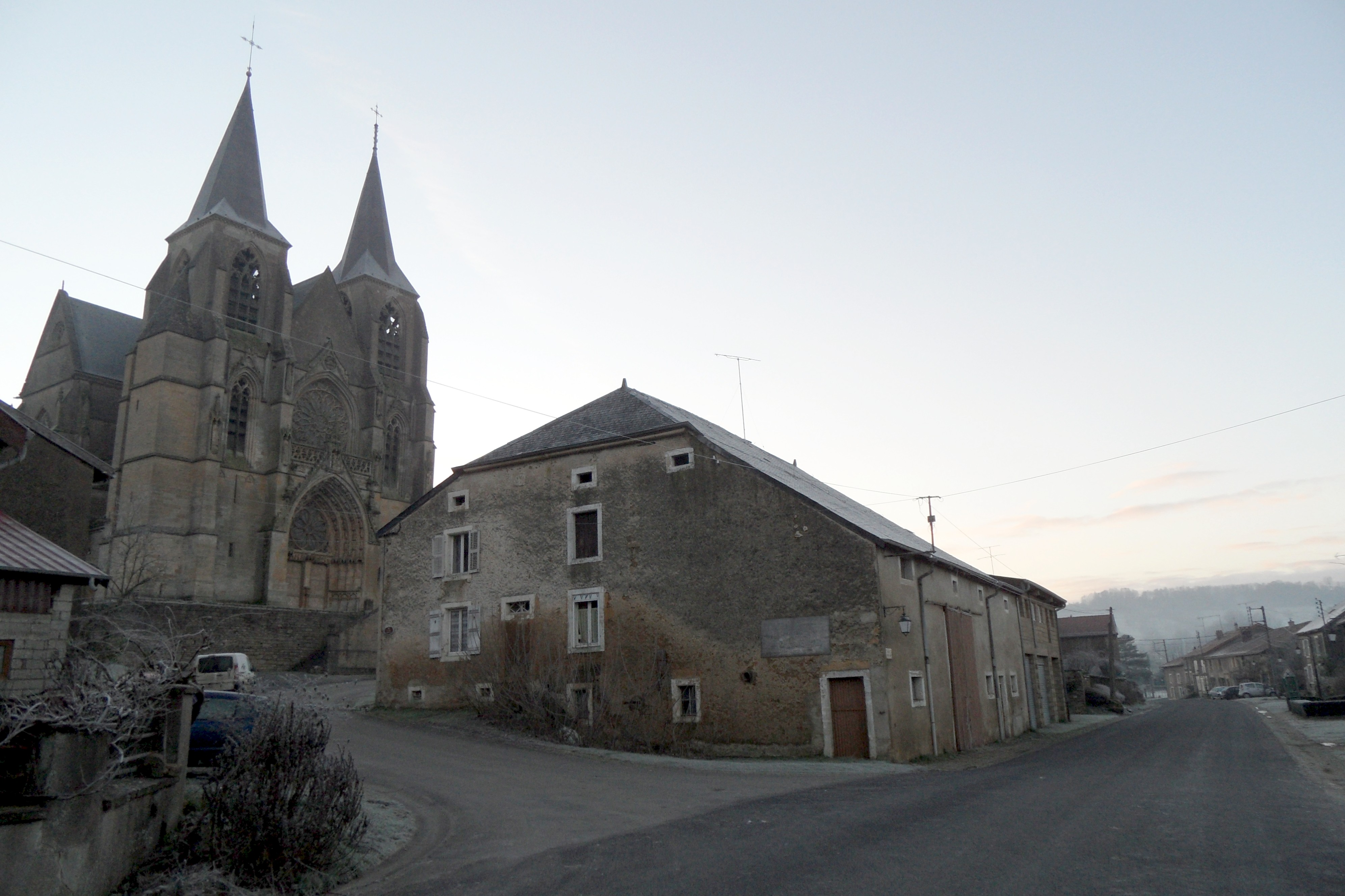 The village of Avioth (France, Meuse Department), on the intersection between the Rue des Comtes de Chiny (main road) and the Rue de la filature. With the Notre-Dame d’Avioth basilica in the background.